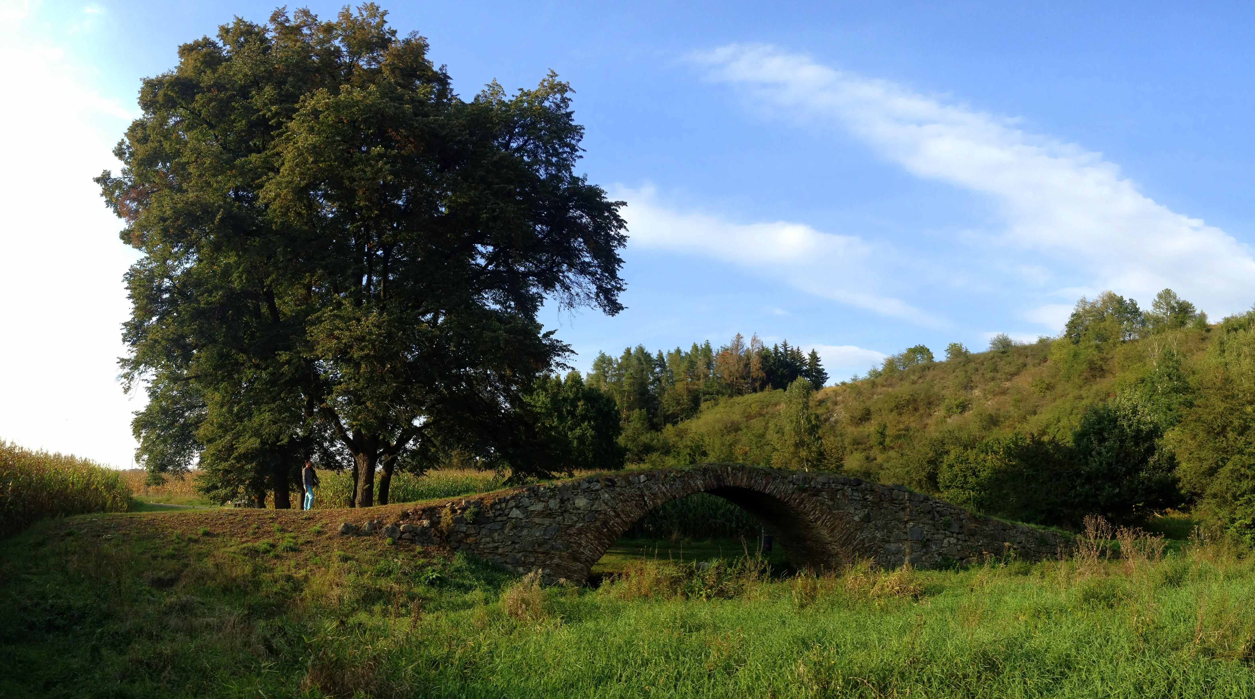 Žižka's bridge near Katovice